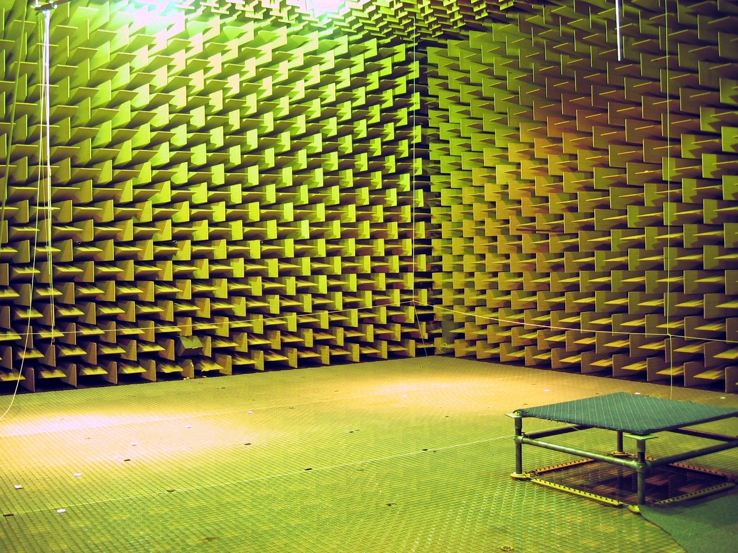 Largest anechoic room of the Technical University of Denmark (DTU Electrical Engineering department)